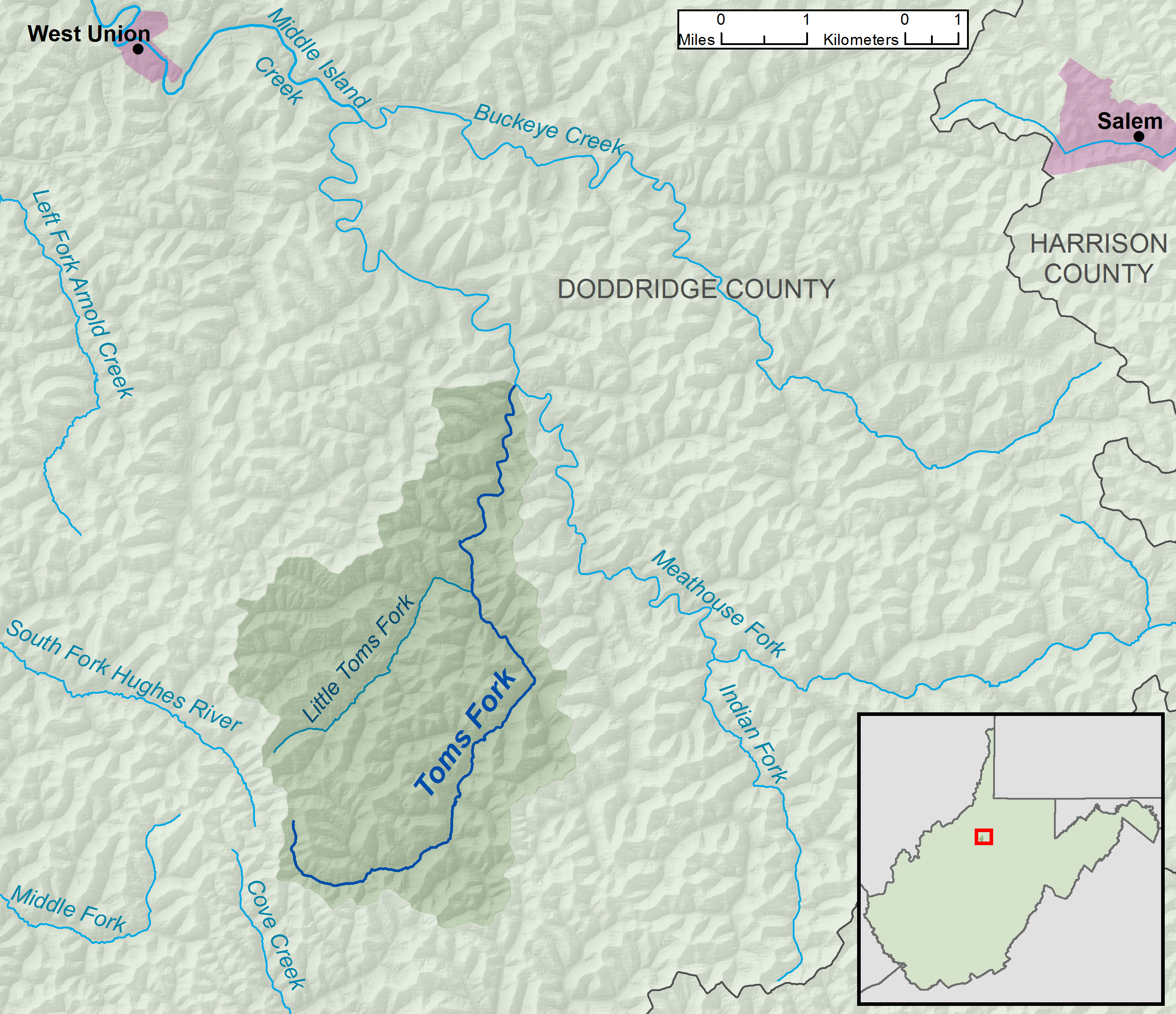 A map of Toms Fork and its watershed (USGS HUC-12 code 050302010401), in Doddridge County, West Virginia.